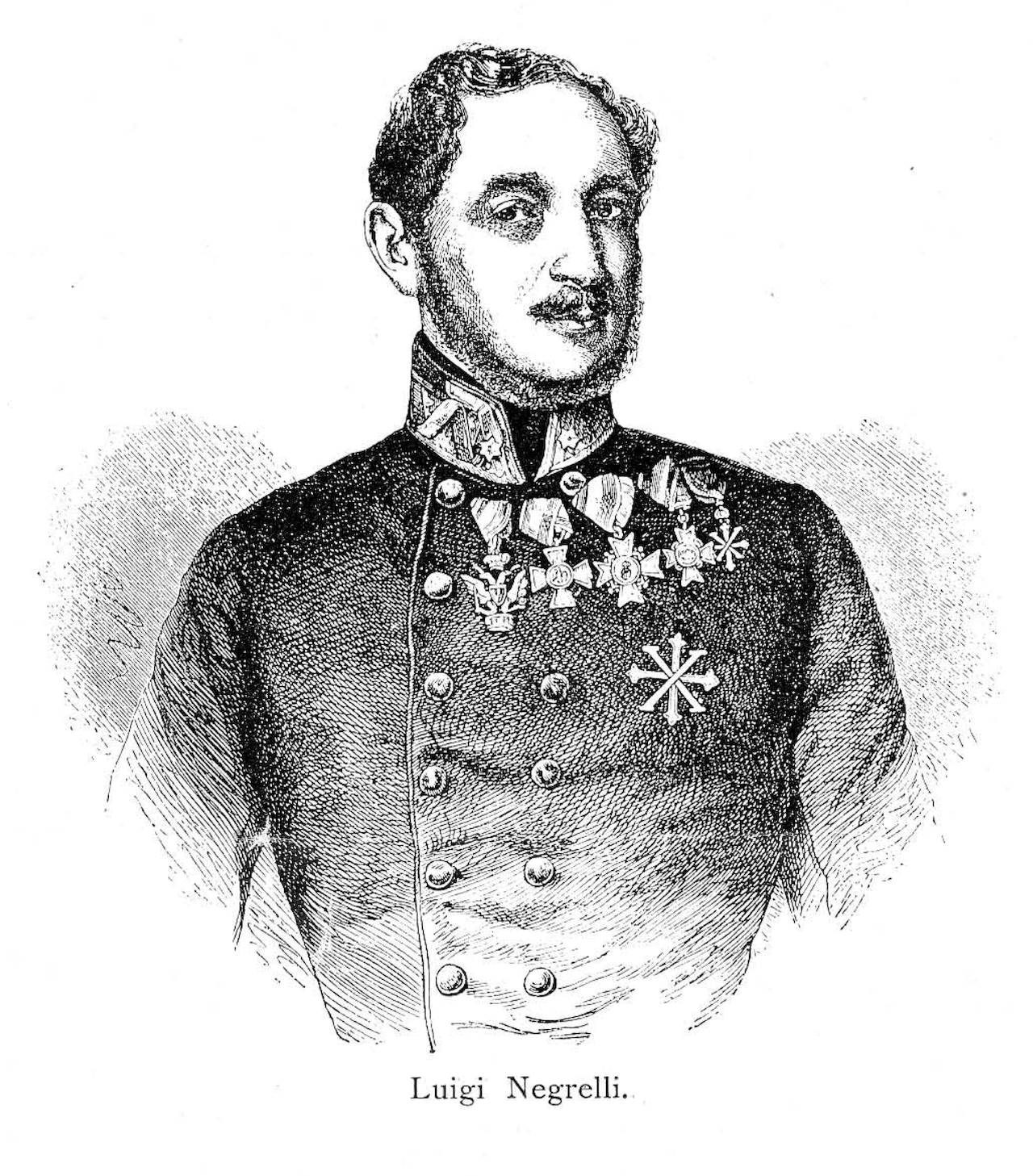 Luigi Negrelli